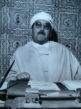 Mohamed_Fadhel_Ben_Achour_-_Office